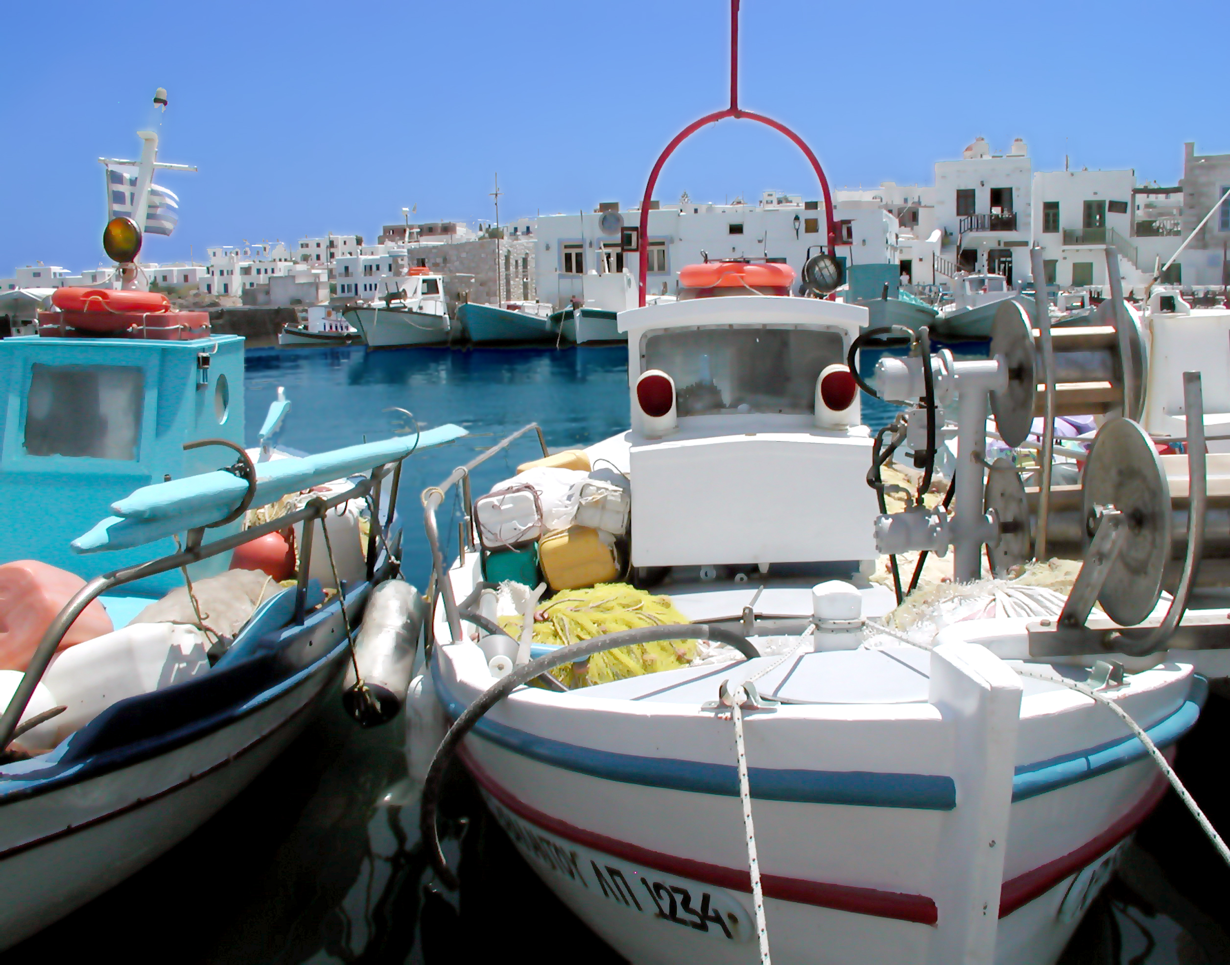 Fishing boats in the harbor of Nauoussa, Paros, Cyclades, Greece